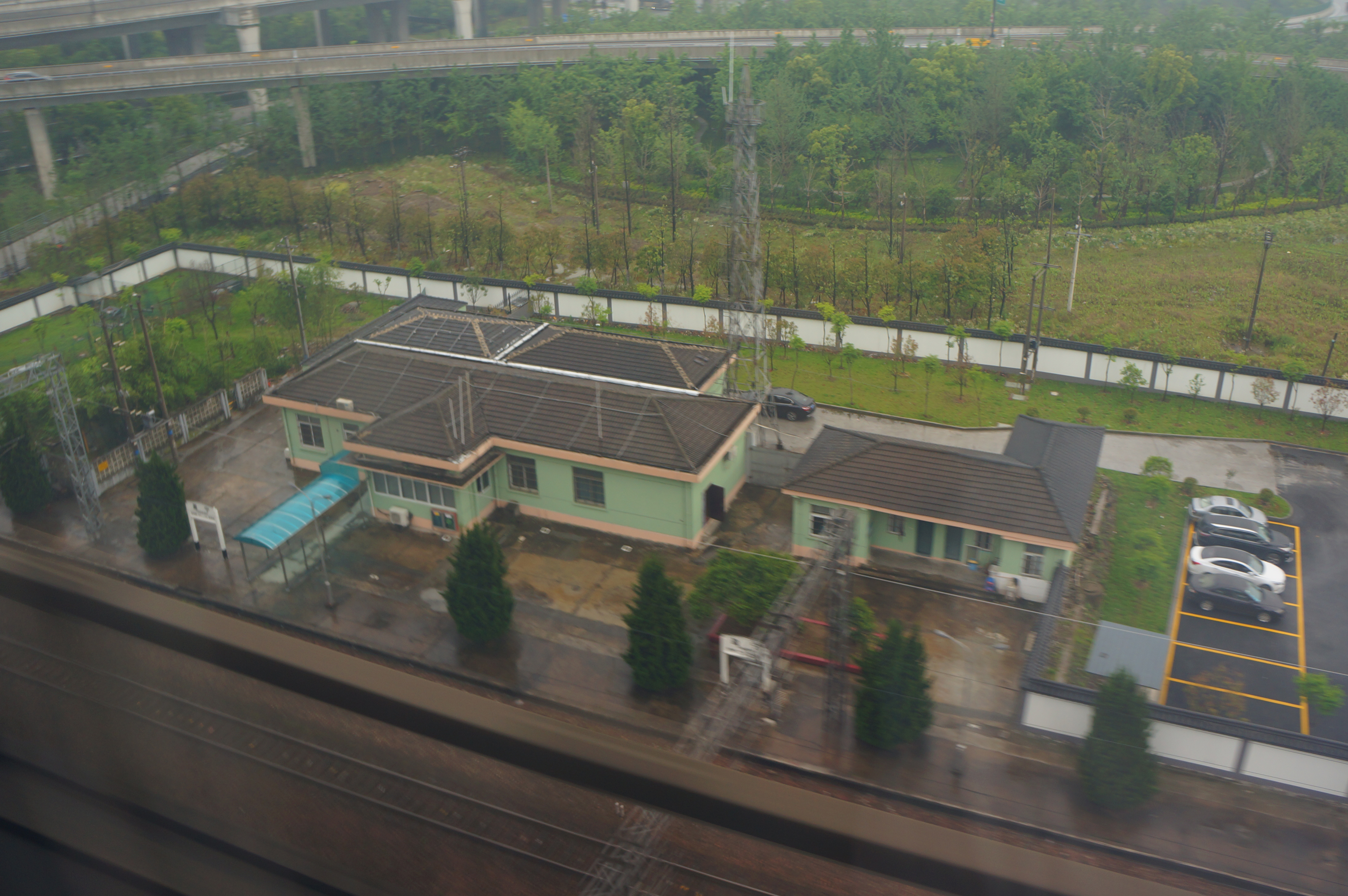 201705 Yingning Station2